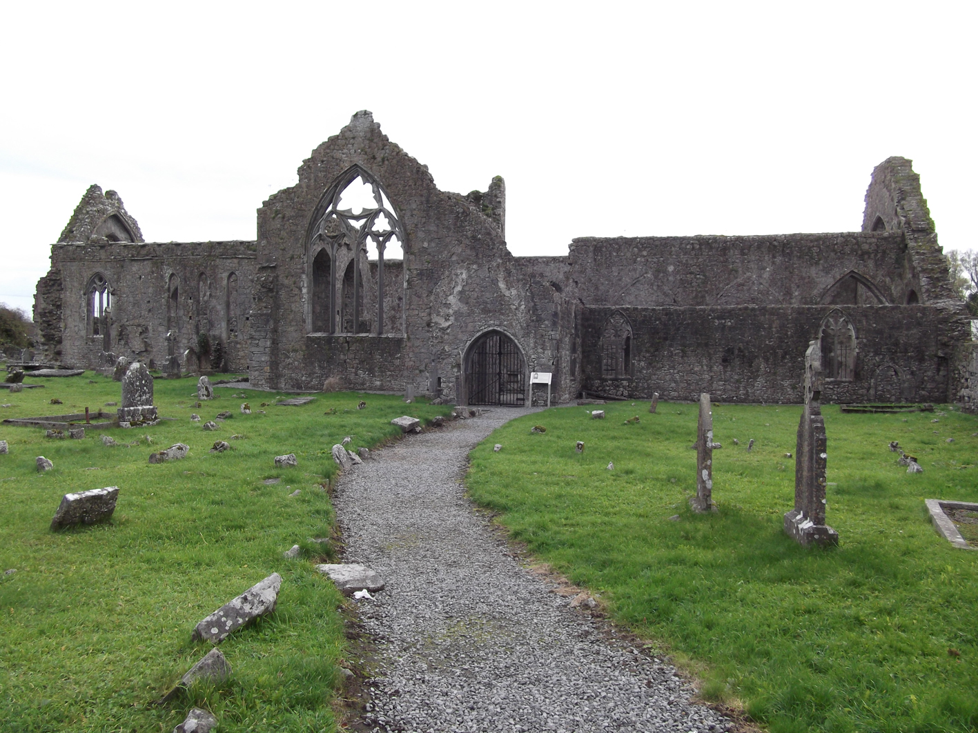 Athenry Abbey, County Galway, Ireland.